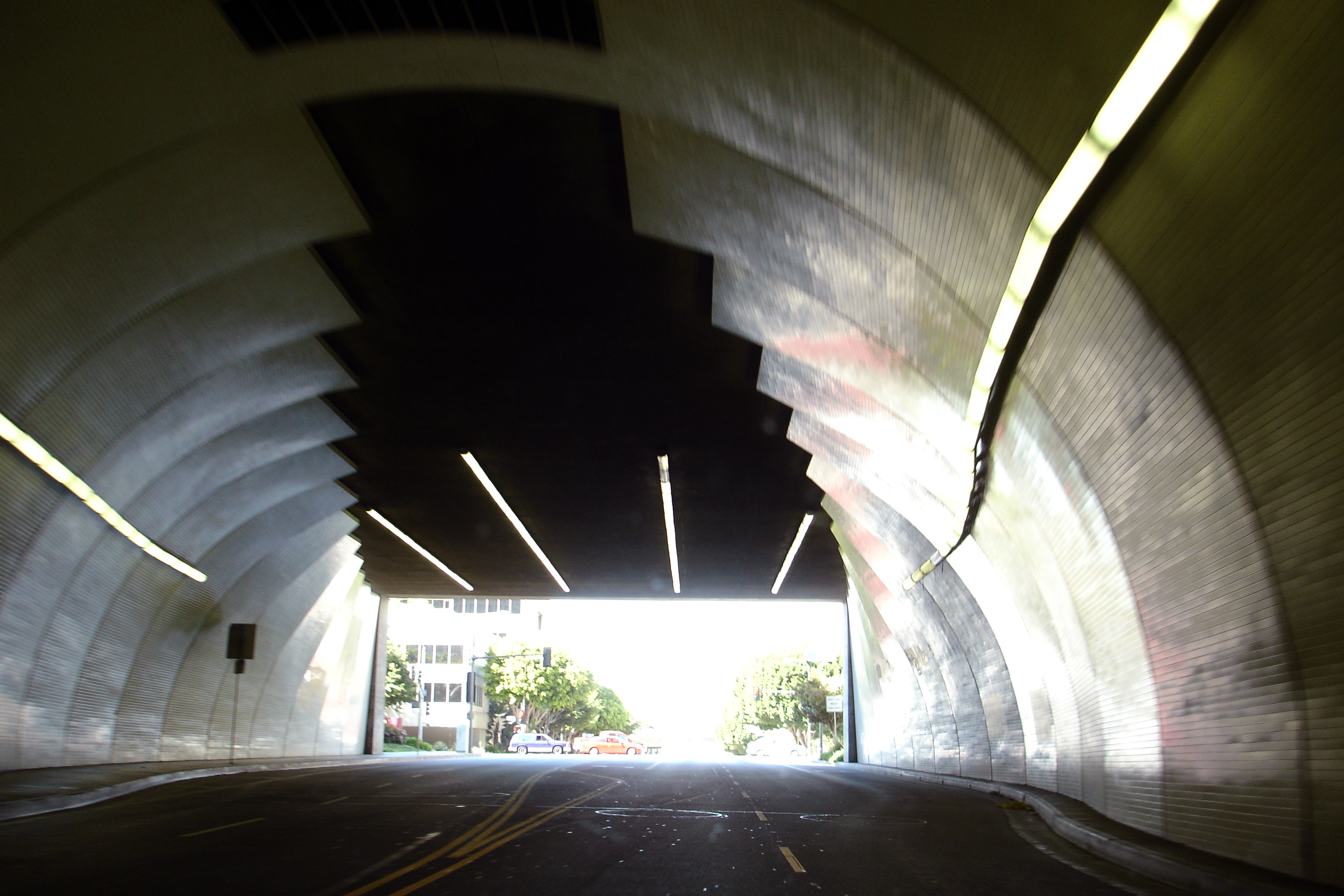 2nd Street Tunnel, Downtown Los Angeles, California